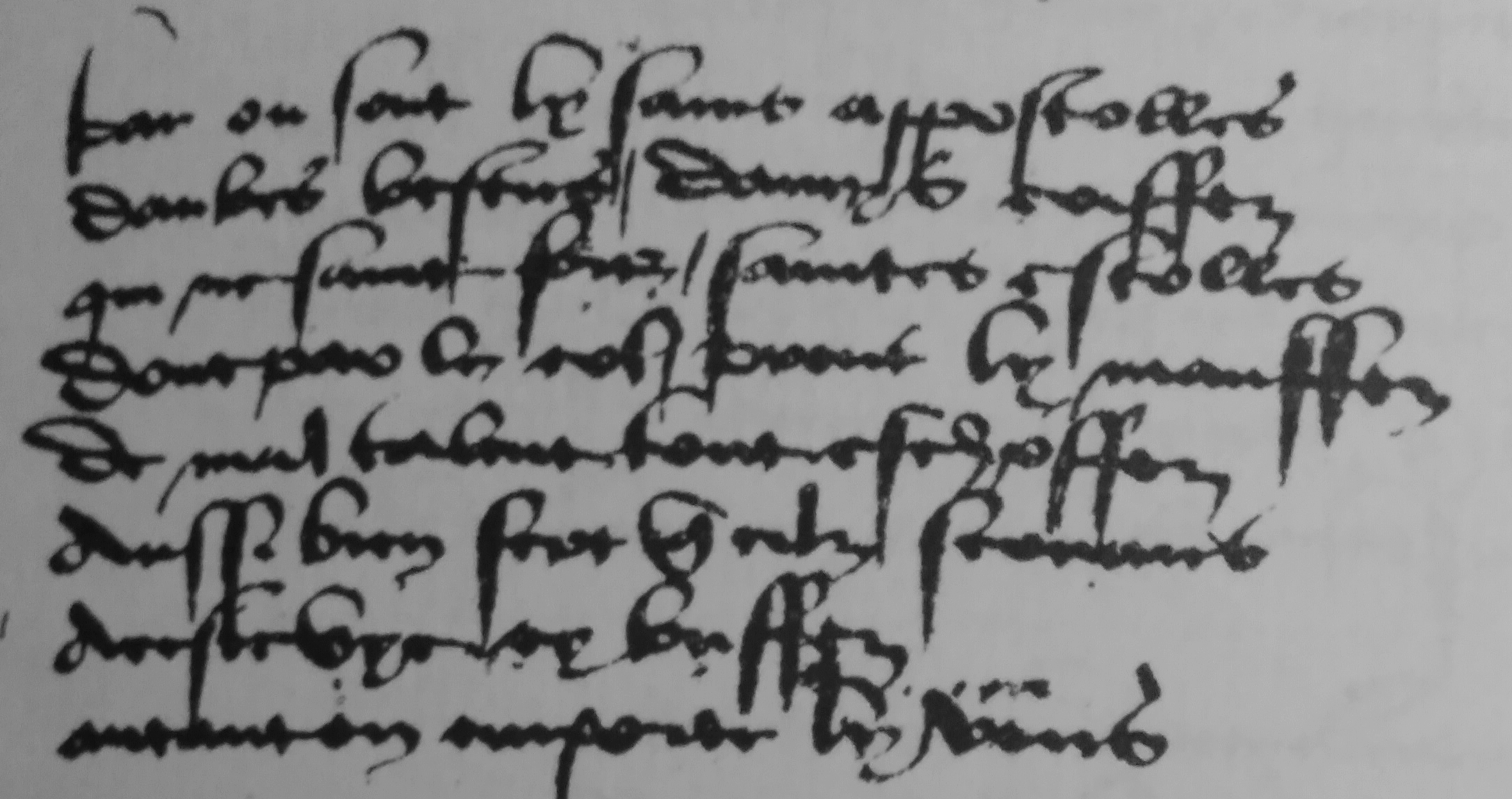 François Villon - La ballade en viel langage françois - Extrait